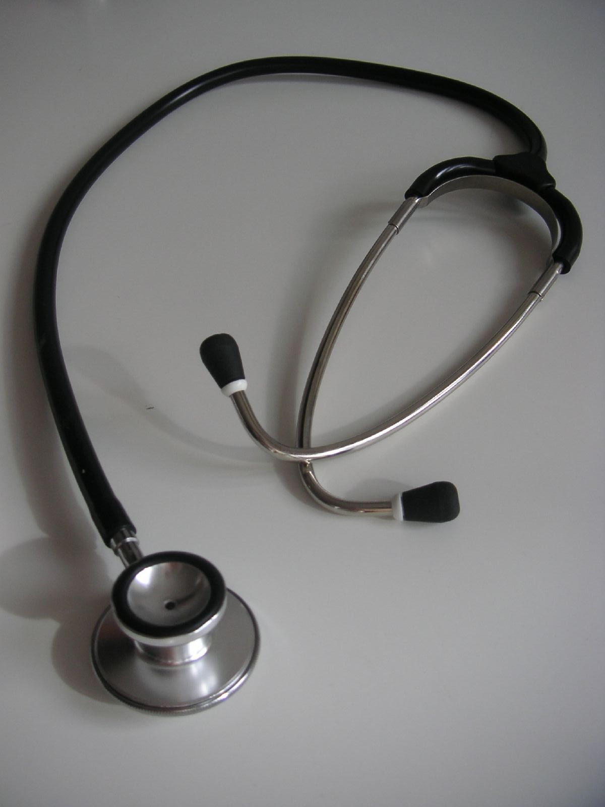 Stethoscope